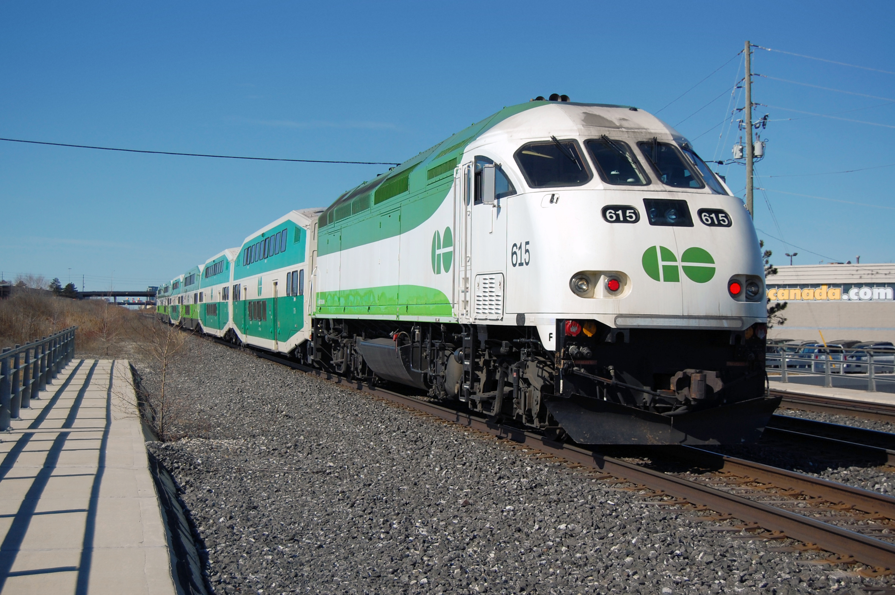 GO Transit train GOT 615 (MPI MP40PH-3C) at Dixie Road overpass in Brampton, Ontario